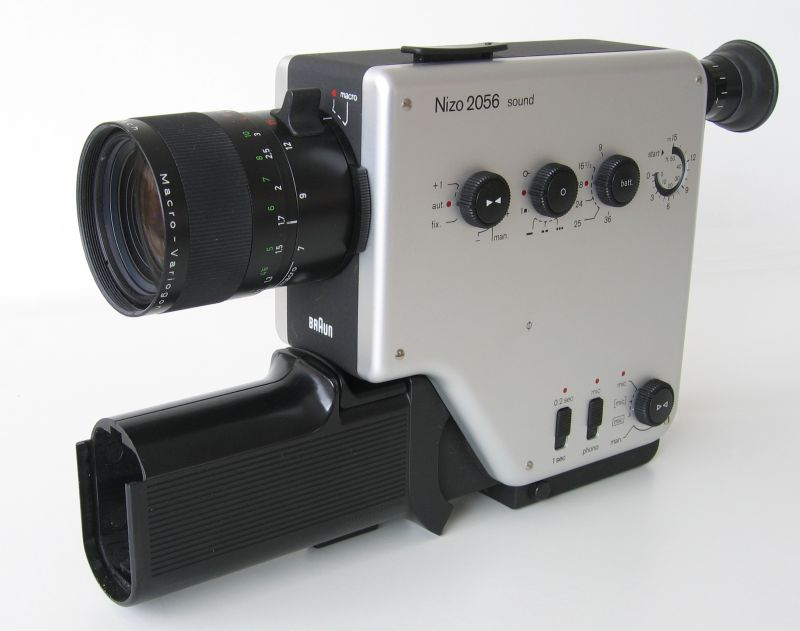 Braun Nizo 2056 sound super 8 mm film camera